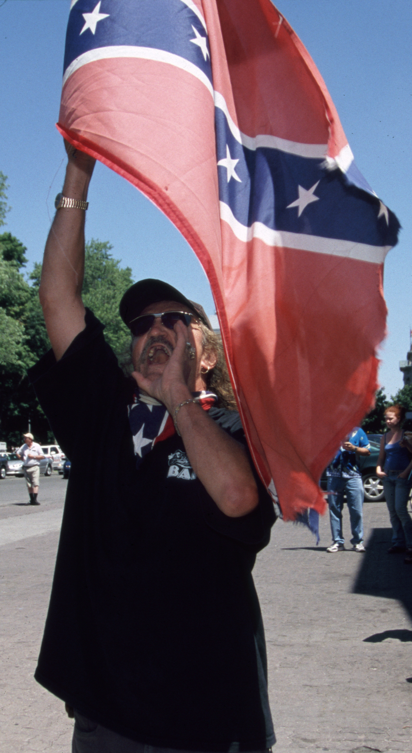 Wayne Kellestine protests against the London, Ontario Gay Pride parade in 2005. Photo by Michael McGregor, 2005.